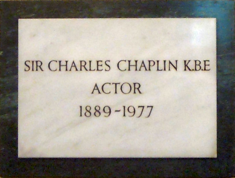 Memorial plaque to actor Charlie Chaplin (1889-1977) in St Paul's church in Covent Garden